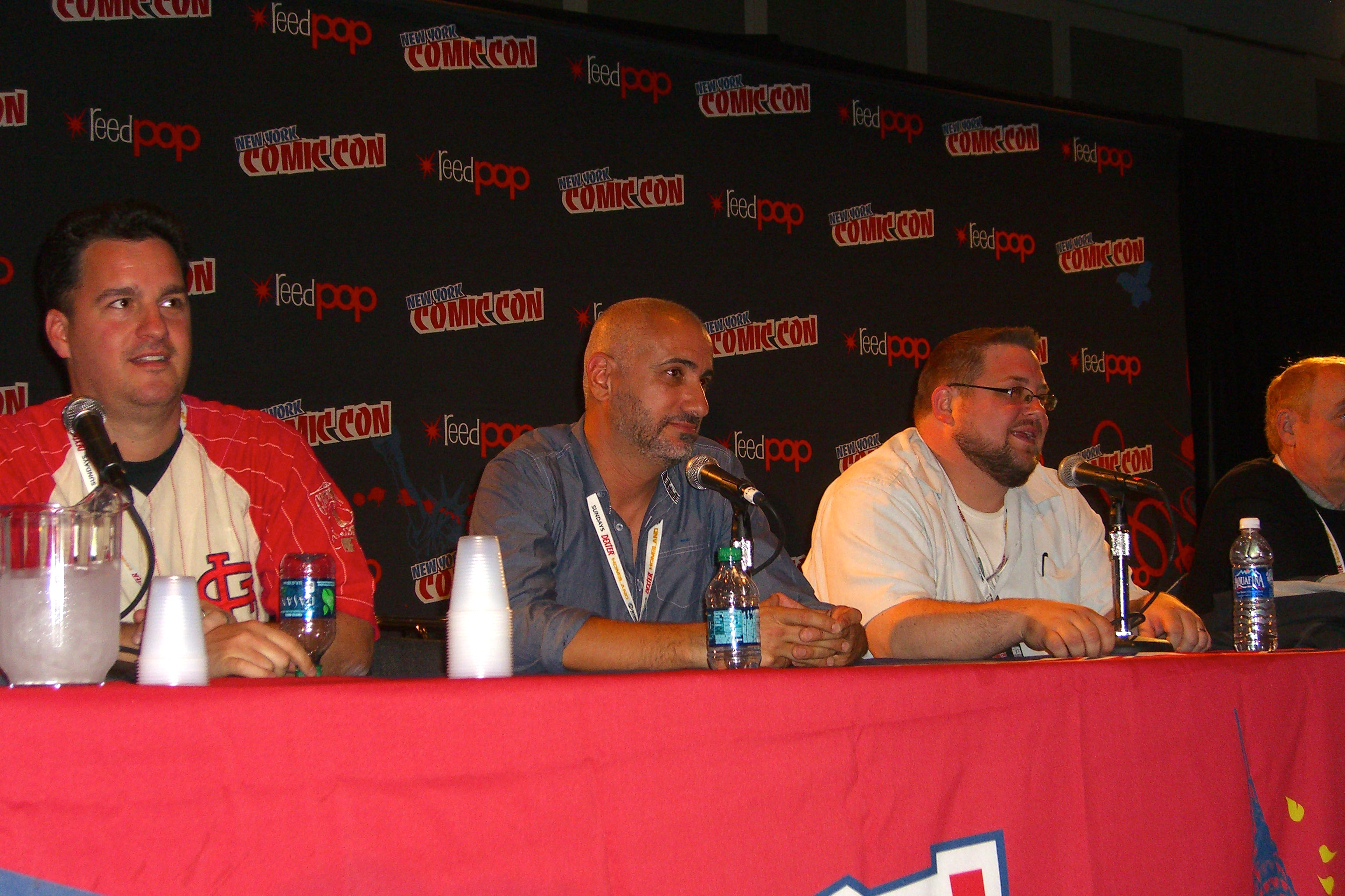 The Marvel NOW! Cup O' Joe panel on Day 3 of the 2012 New York Comic Con, Saturday October 13, 2012 at the Jacob K. Javits Convention Center in Manhattan. From left to right: artist editor Steve Wacker, Editor-in-Chief Axel Alonso, C.B. Cebulski and (barely visible) Head of Marvel Television Jeph Loeb. This photo was created by Luigi Novi. It is not in the public domain, and use of this file outside of the licensing terms is a copyright violation.